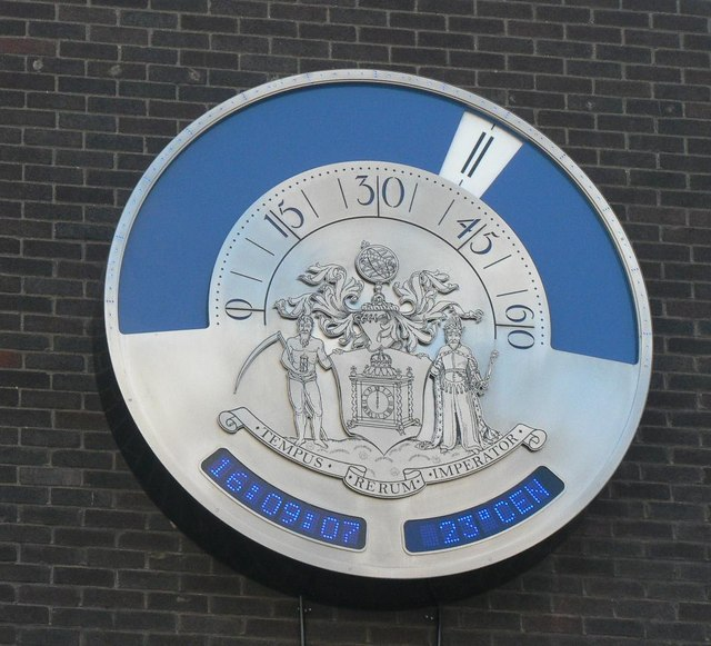 City of London: unusually arranged clock The Roman numeral II, representing the hour, slowly travels around the minute markers to indicate the time. As it approaches the 60, the III comes into view on the left. As you can see, it is 39½ minutes past two, and it is a pleasantly warm 23ºC for mid-September. The Newgate Street Clock was Worshipful Company of Clockmakers' 375th Anniversary Gift to The City of London.